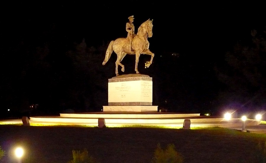 papagos